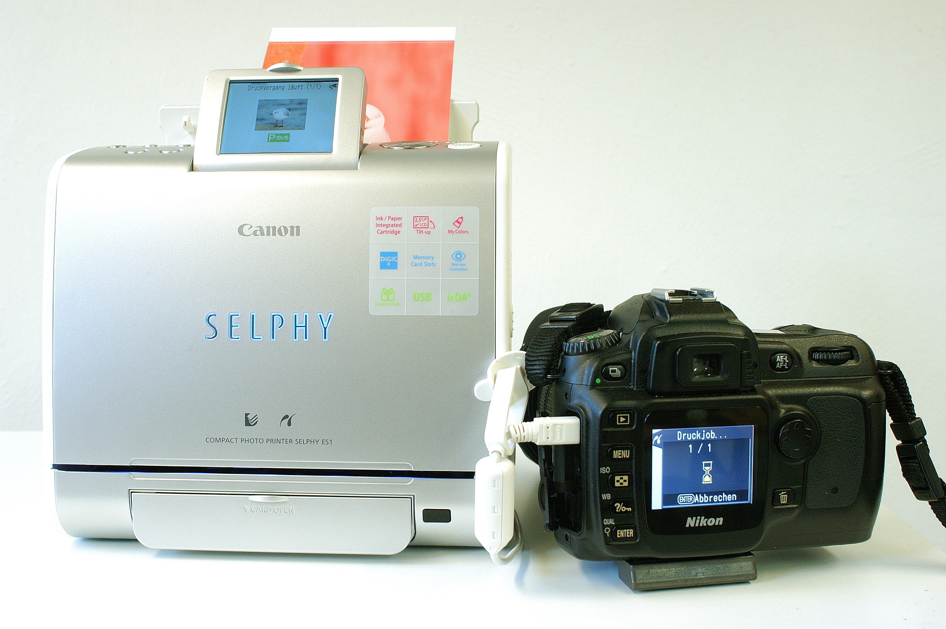 Compact photo printer Canon Selphy ES1 printing photos from a Nikon D50 via PictBridge